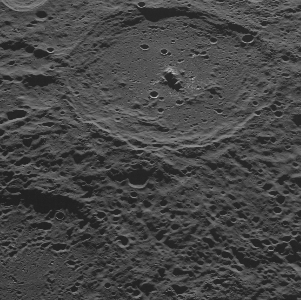 Abu Nuwas crater on Mercury. MESSENGER Wide Angle Camera, rotated so foreground is at bottom. North is to the right. Part of Moliere crater is in left foreground. Center Emission Angle: 41.340131613543 Center Incidence Angle: 80.671341387192 Center Latitude: 17.449761043393 Center Longitude: 340.33368987673 Center Phase Angle: 122.01087983574